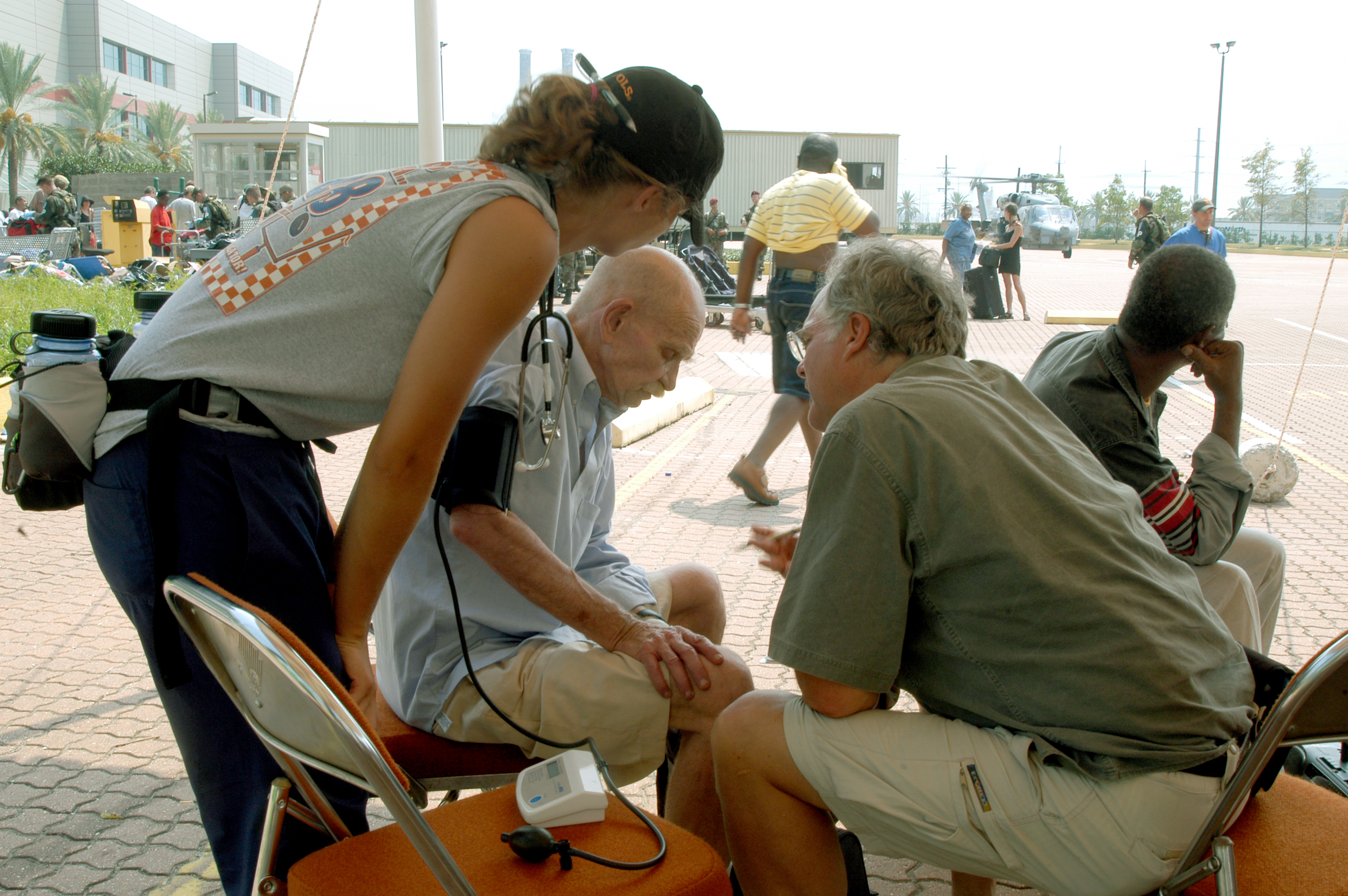 New Orleans, September 5, 2005 - A doctor (right) and nurse (left) attached to a Disaster Medical Assistance Team helping those in need at the Ernest N. Morial Convention Center pickup area listen as a man describes his condition. Many thousands left homeless by Hurricane Katrina receive medical treatmkent before being airlifted of bussed to shelters and hospitals around the nation. Photo by Win Henderson / FEMA photo.